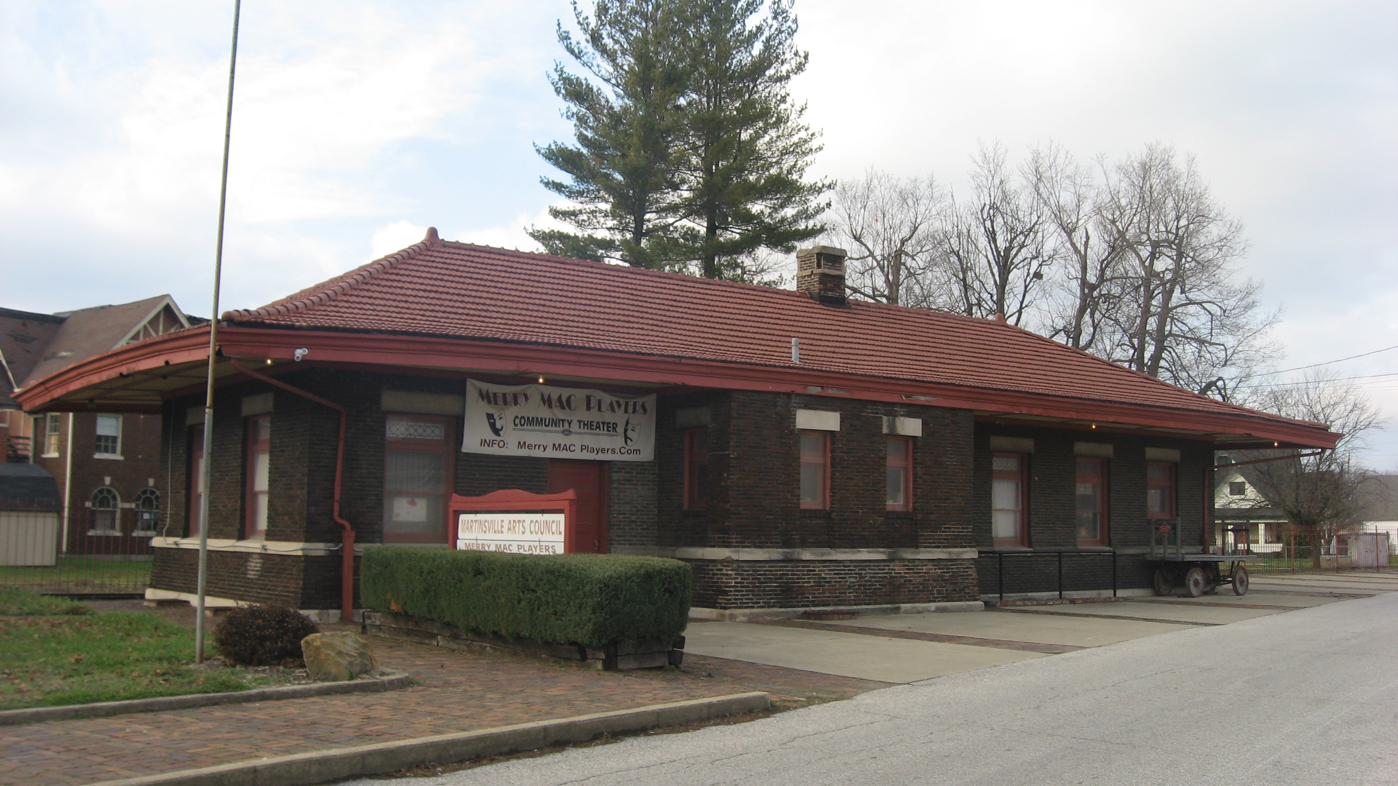 Front of the Martinsville Vandalia Depot, located at 210 N. Marion Street in Martinsville, Indiana, United States. Built in 1911 for the Vandalia Railroad, it is listed on the National Register of Historic Places.